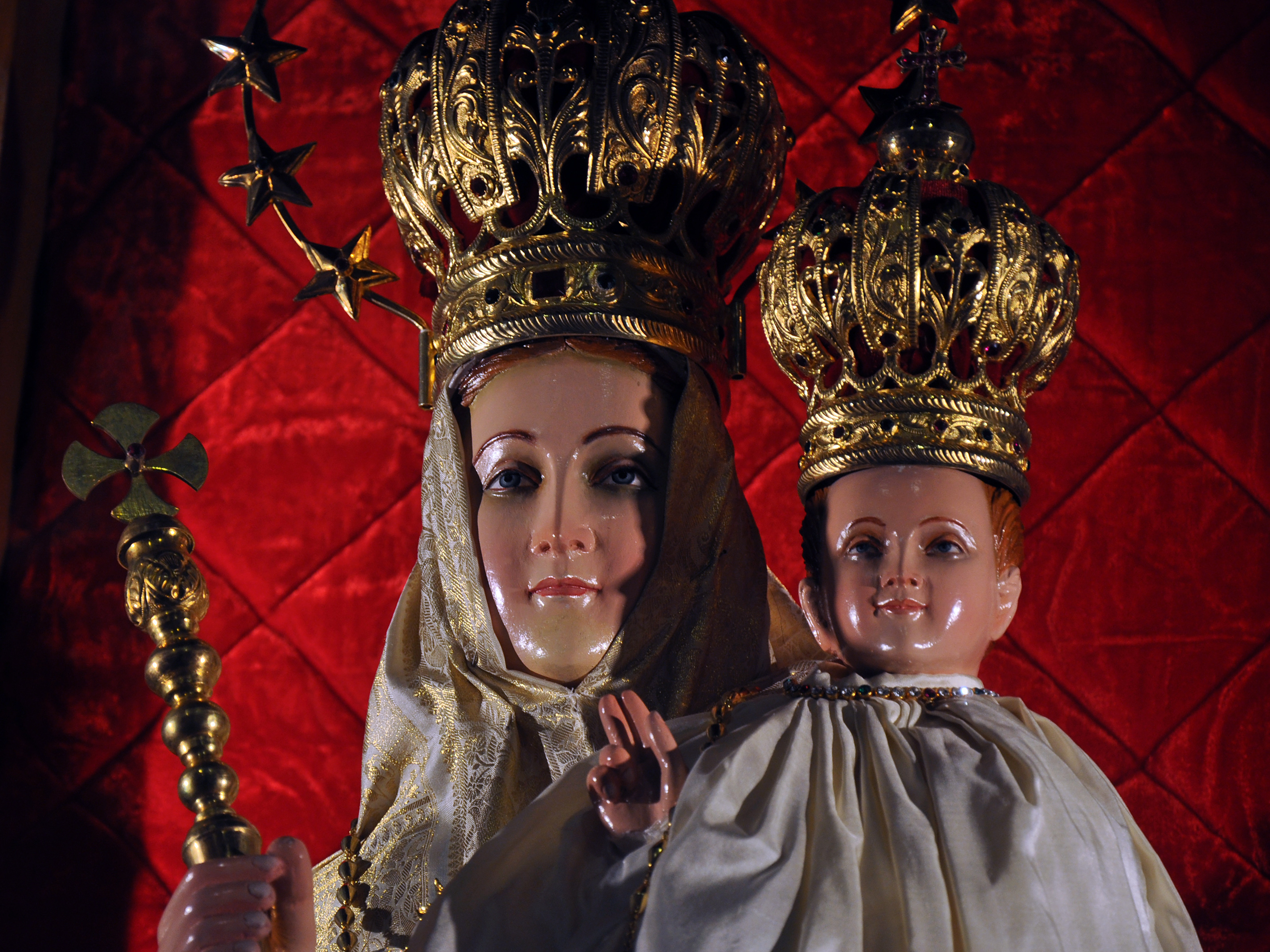 Our Lady of Vailankanni, a statue in the crypt of Basilique Notre-Dame de Fourvière, Lyon, France.